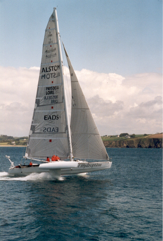 The experimental sailboat Hydroptère.